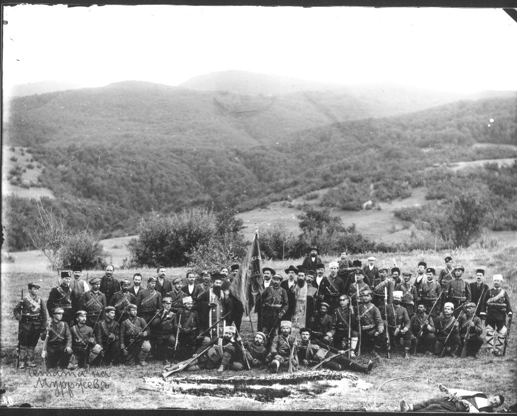 Cheta of IMARO member Atanas Murdjiev